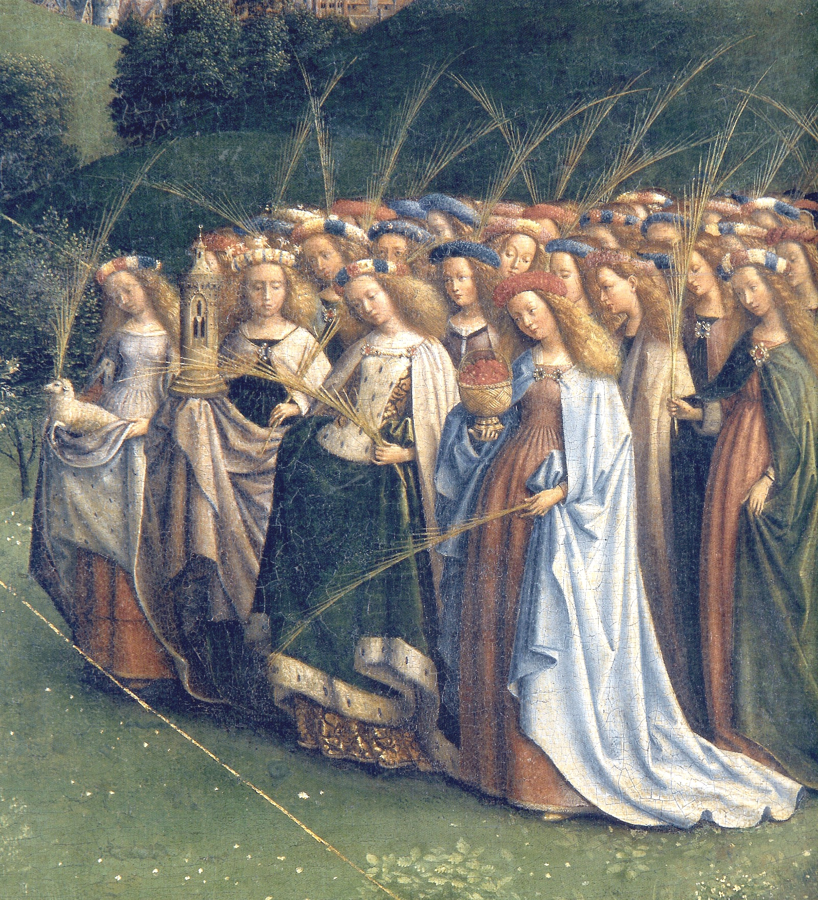 detail: Holy virgins and virgin martyrs coming to worship the lamb